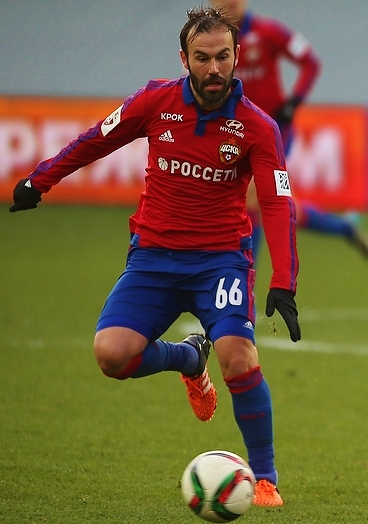 Bibras Natkho